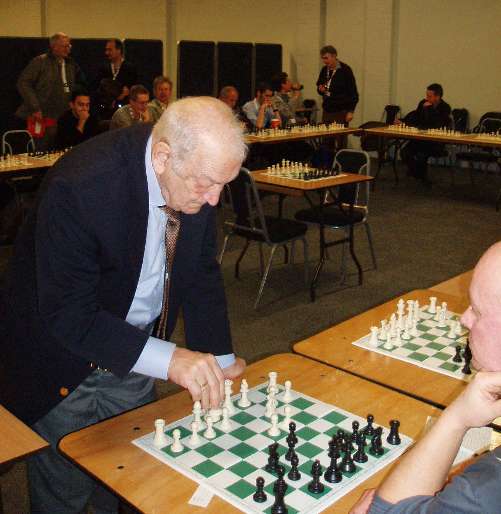 Viktor Korchnoi giving a simultaneous display at the London Chess Classic, London, UK.